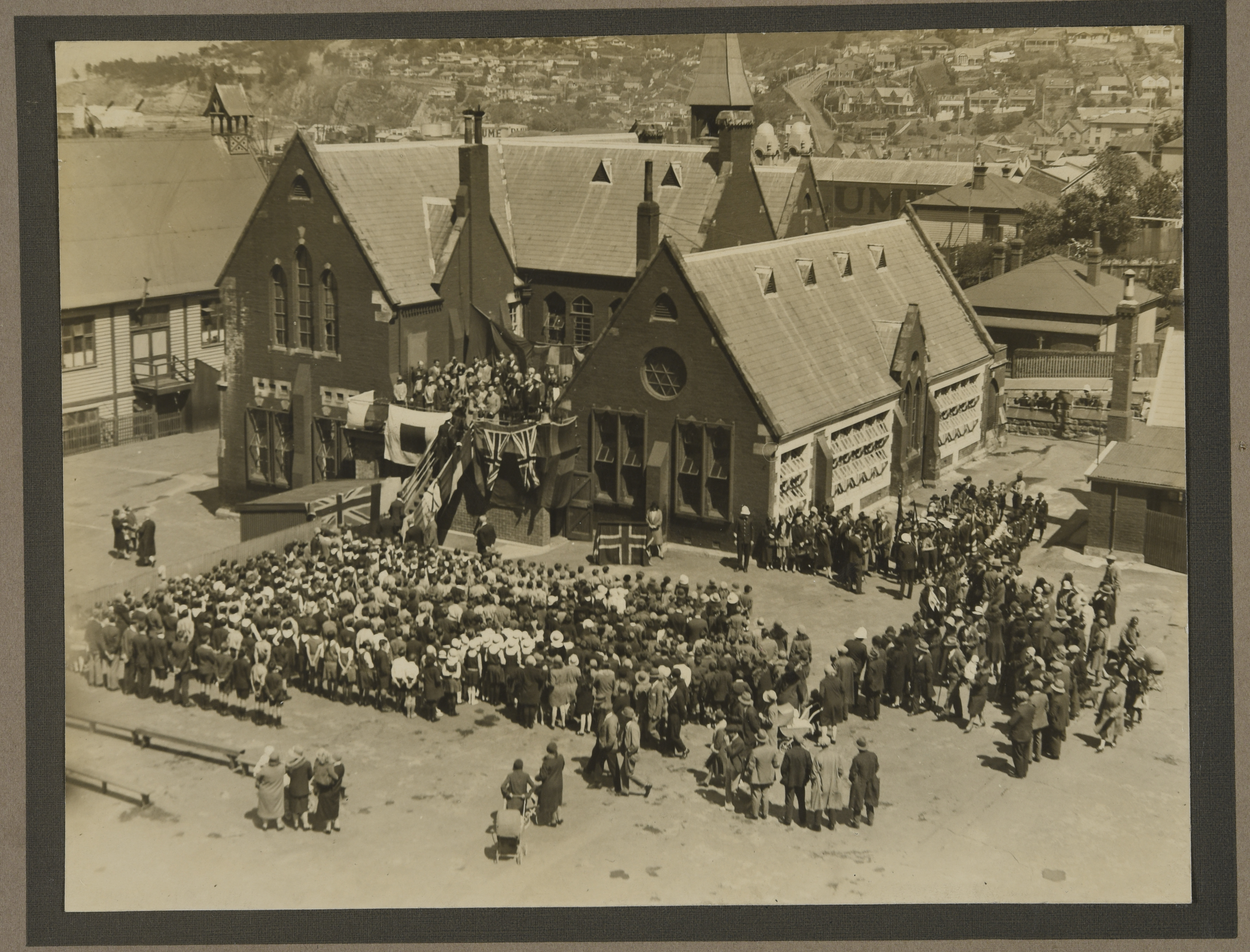 The Governor-General, Lord Bledisloe, and Lady Bledisloe visit Lyttelton, 24 November 1930; at Lyttelton District High School